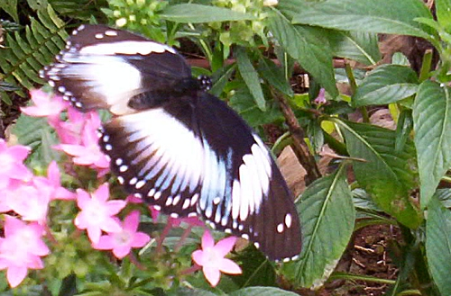 Unlike the monarch I photographed in the wild here in the valley, this butterfly is a captive at the Mariposario del Drago - butterfly farm and zoo - in Icod de los Vinos, near the famous Dragon Tree. Opened in 1997, it was the first centre in Spain dedicated exclusively to butterflies. This was an accidental visit. We had intended to view the silver in the San Marcos church, but following typical Canarian logic (so shoot me), the church was closed. It was a Sunday. :) My friend was wearing red that day, but her husband quickly dispelled her fears, exclaiming "They're butterflies, not bulls!" So yes, as soon as she was inside the door, a HUGE butterfly landed on her posterior! Butterfly)&t=h See where this picture was taken. [?]